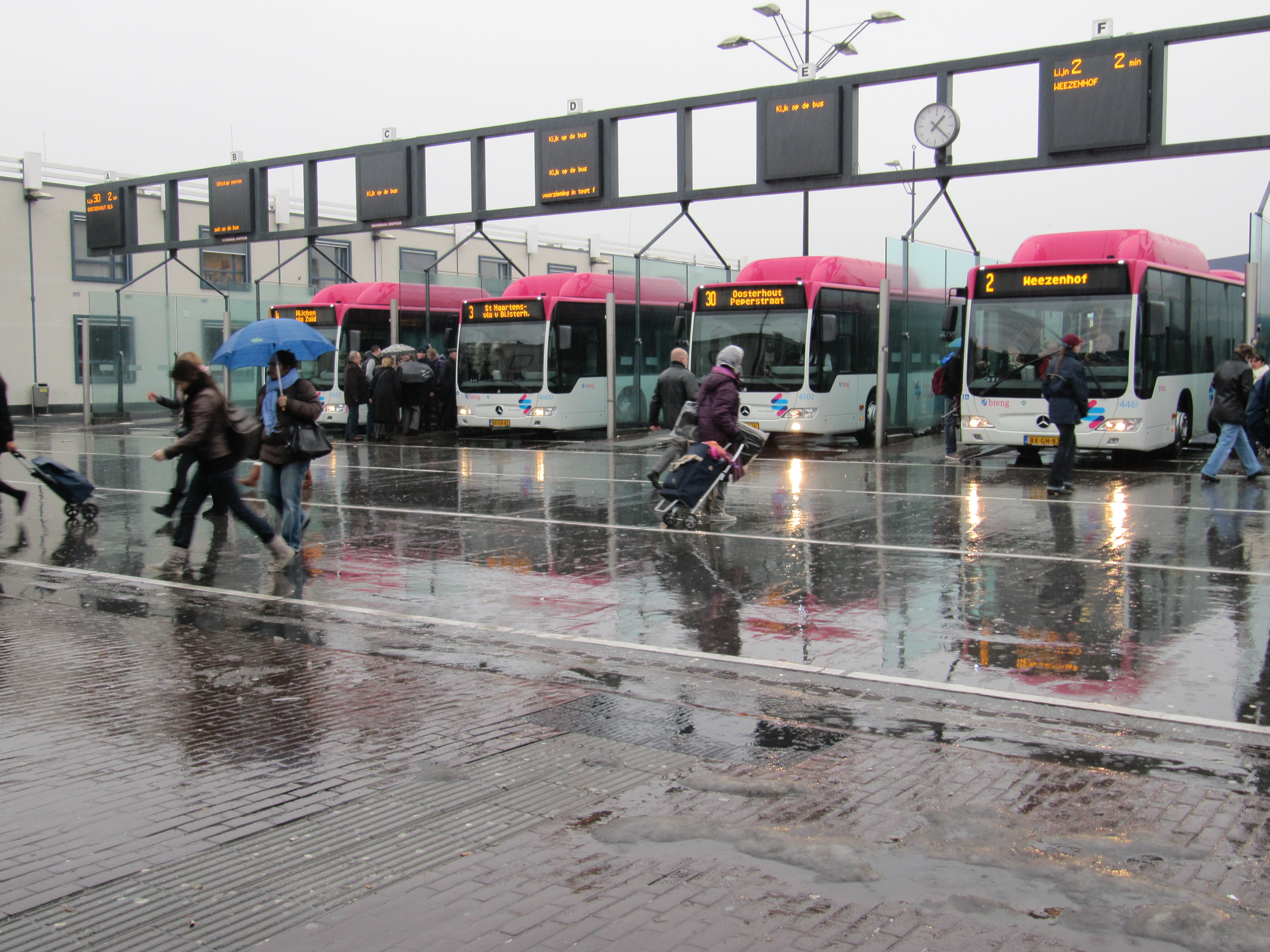 Breng Citaro's at the busstation allong trainstation Nijmegen